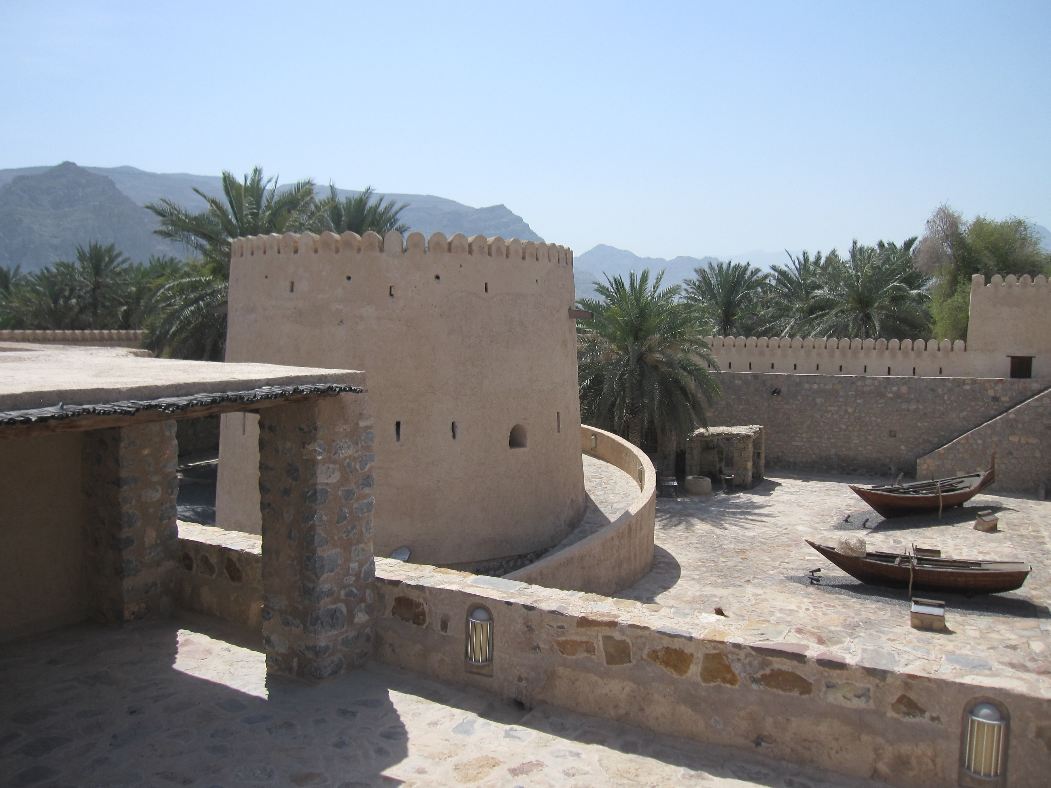 View from Khasab Castle to town and mountains